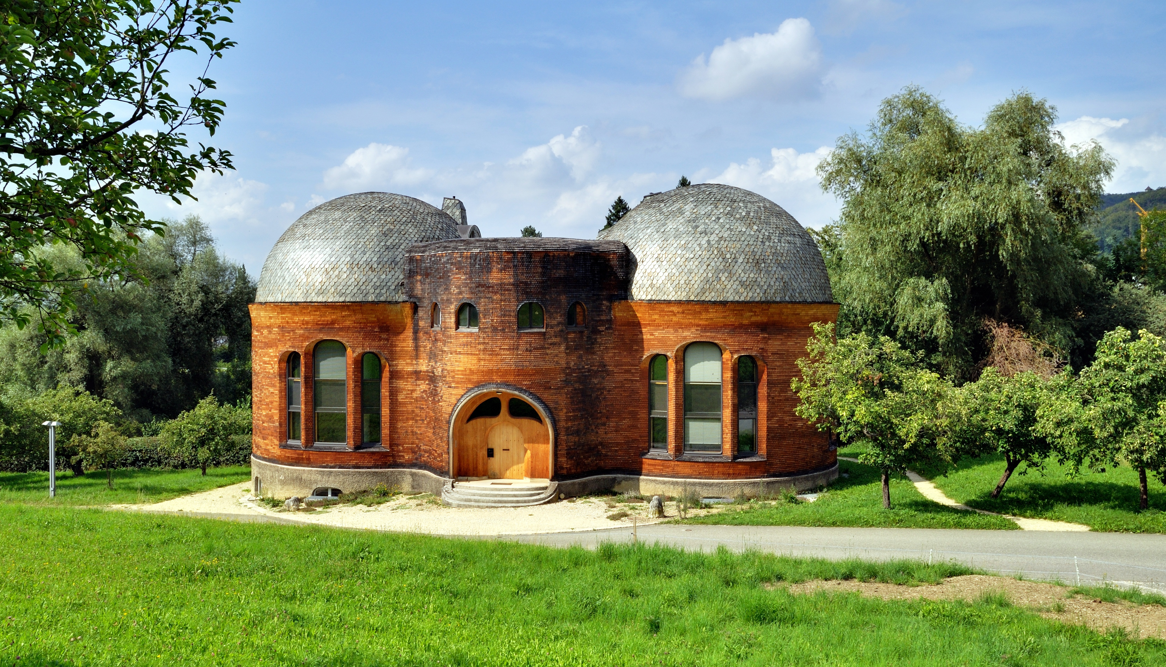 Goetheanum surroundings: Glas house